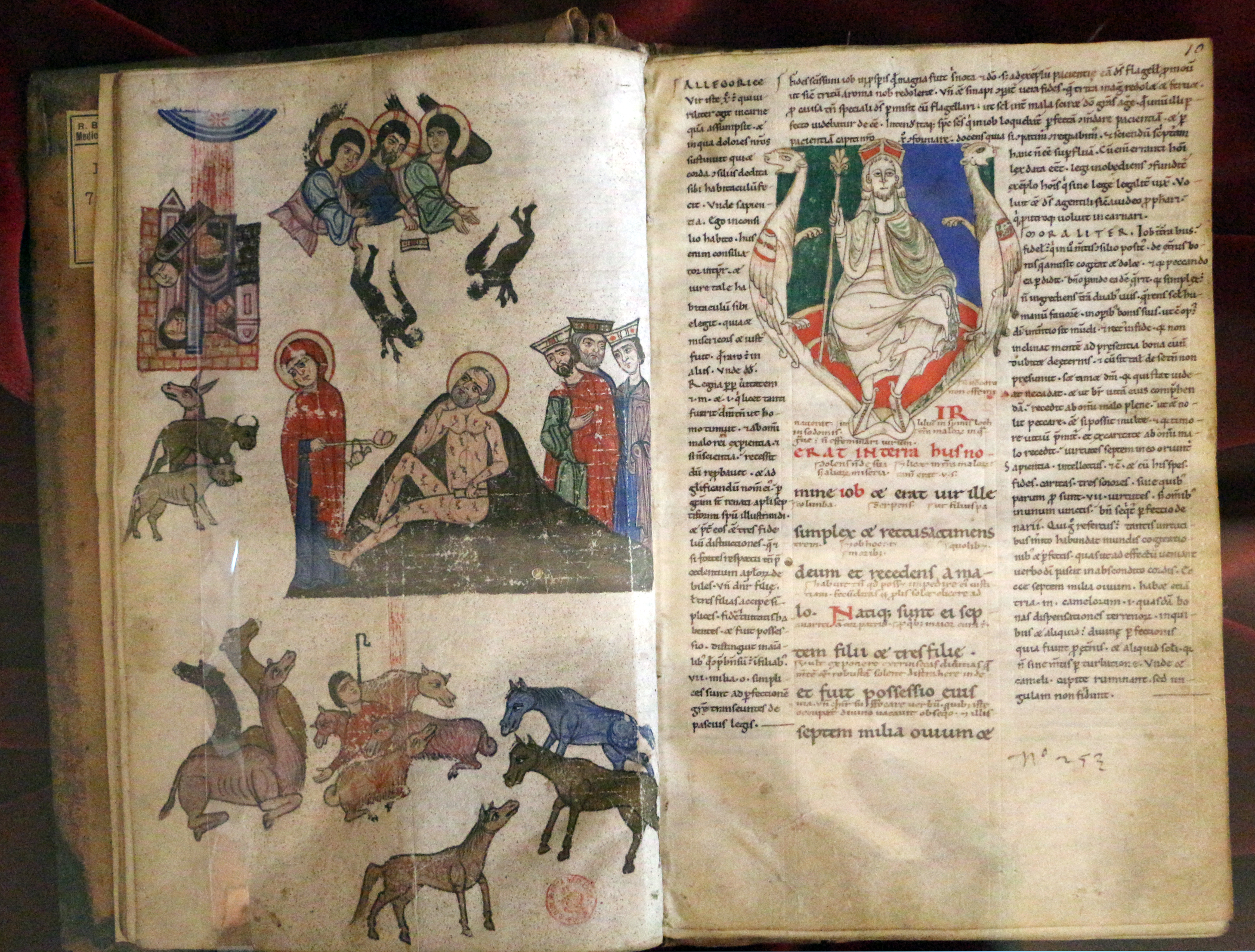 Biblioteca Medicea Laurenziana manuscripts